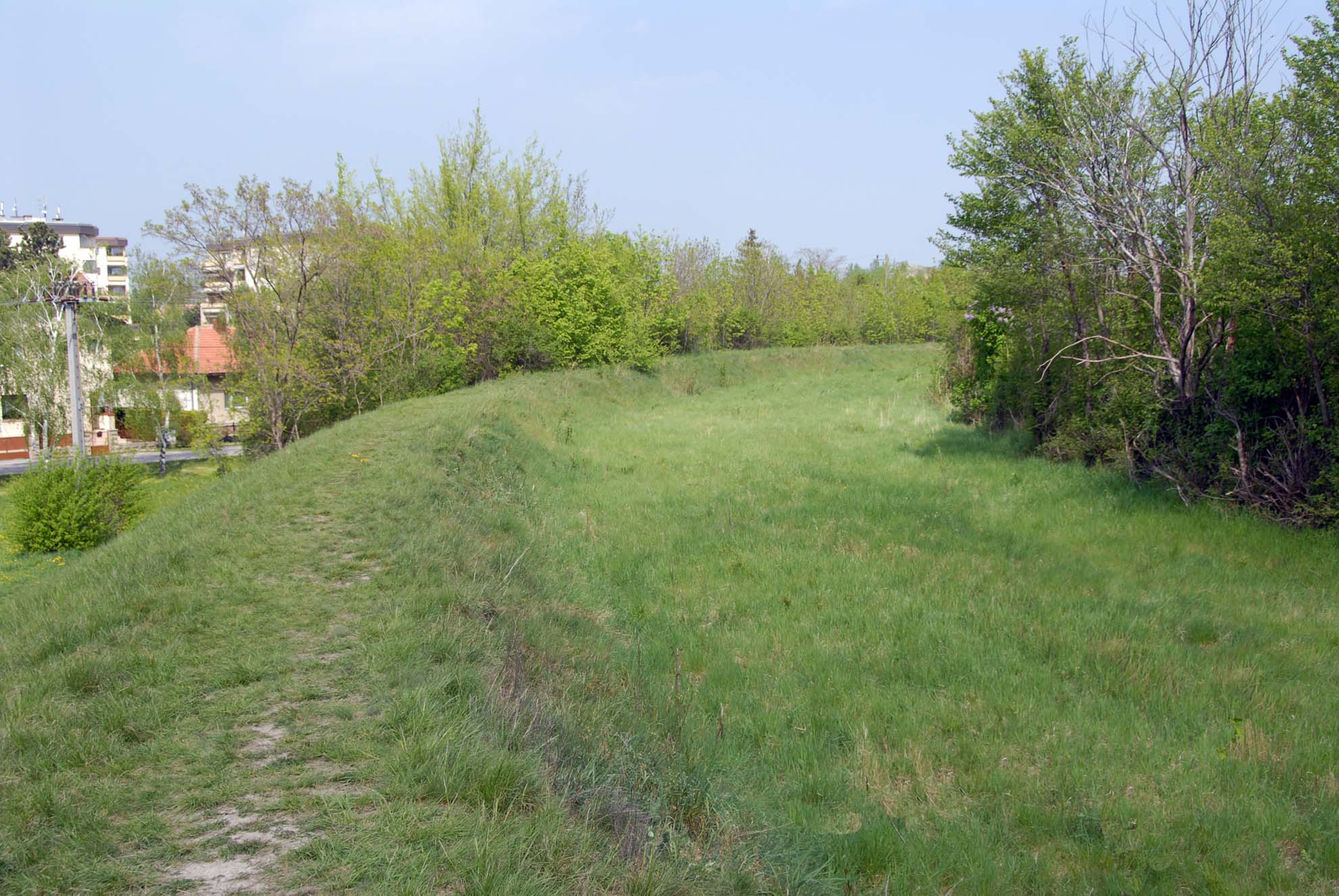 Old Canal at Leopoldsdorf/Lower Austria